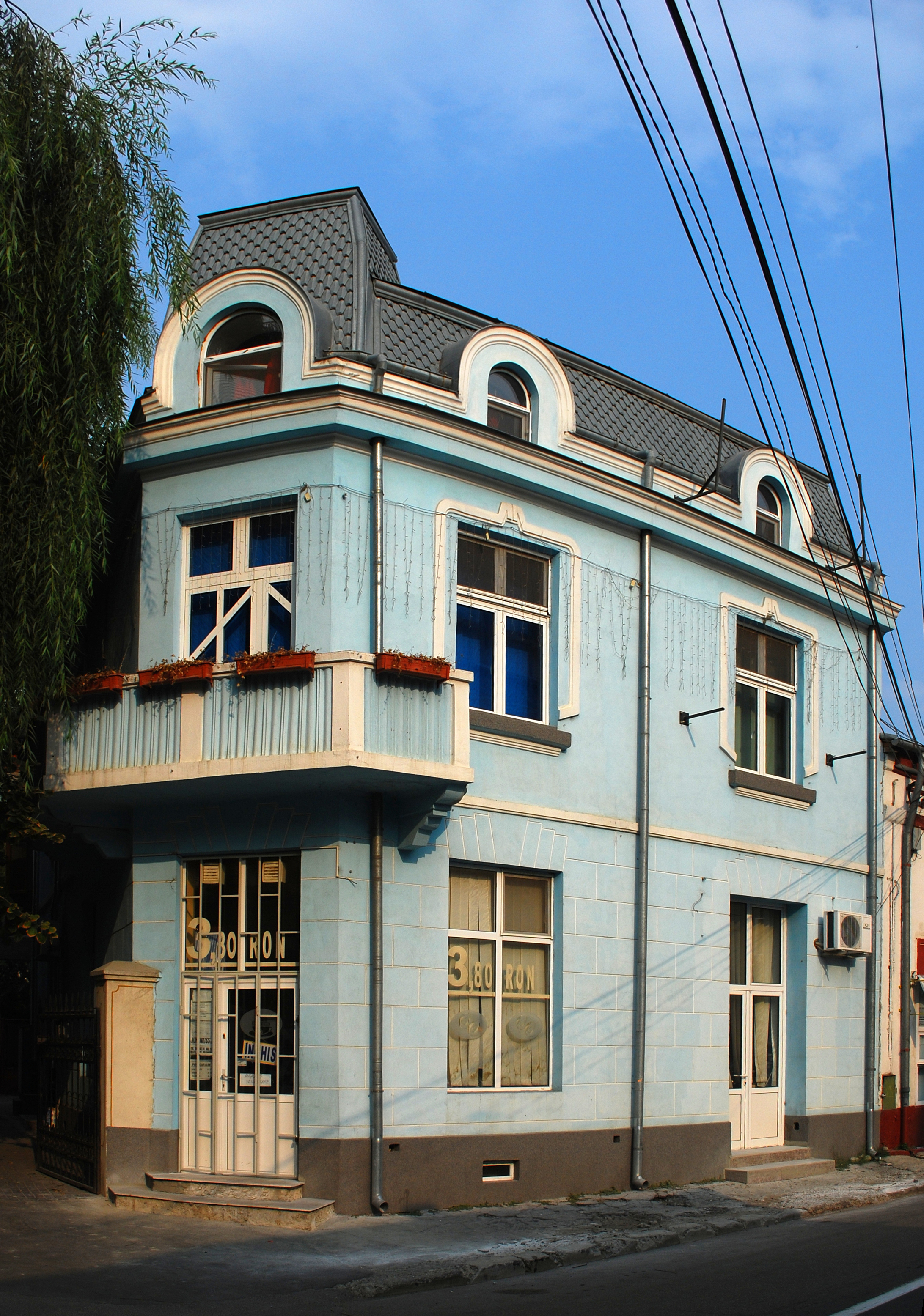 Historical building in Buzău Romania, on Bistriţei street 7